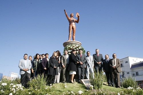 Francisco ; Francisco García Salinas